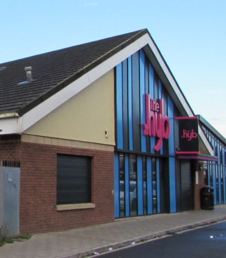 Grangetown Community Hub, Havelock Place, Grangetown, Cardiff The building is The Hub in English, Yr Hyb in Welsh. The Cardiff City Council website states that trained staff are on hand here to help you access a wide range of Council and partner services including: Free PCs, internet and Wi-Fi access. Housing and benefit service. Full Library services including quiet area and space for children’s events. IT suite. Free phones to contact Council and other services. Into Work and Money Advice. Coffee shop. Community Room. Citizens Advice Bureau advisors. Communities First delivering community events and information. Private interview rooms.